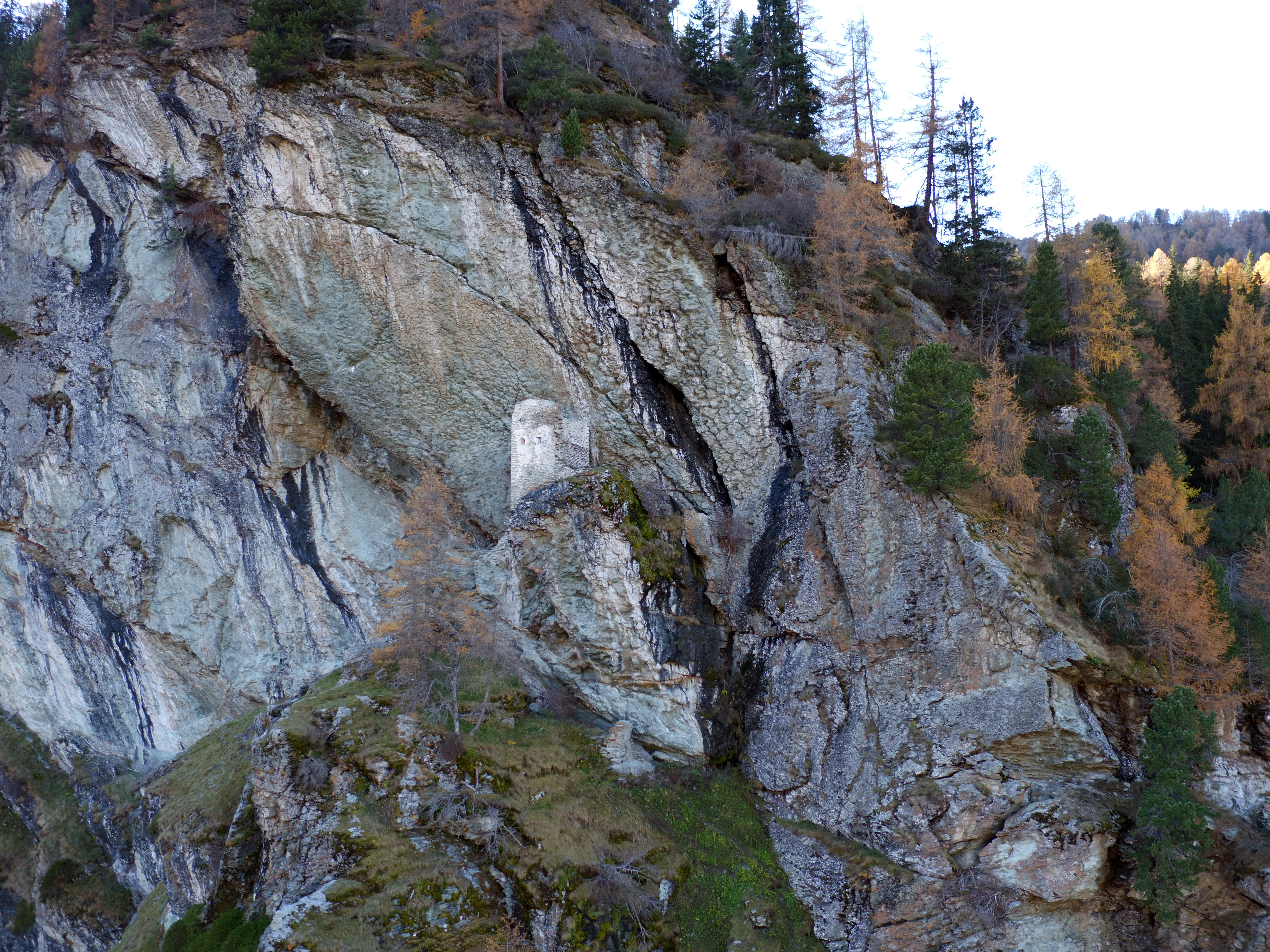 Aerial recording of Marmels Castle (Marmorera, Grisons, Switzerland)